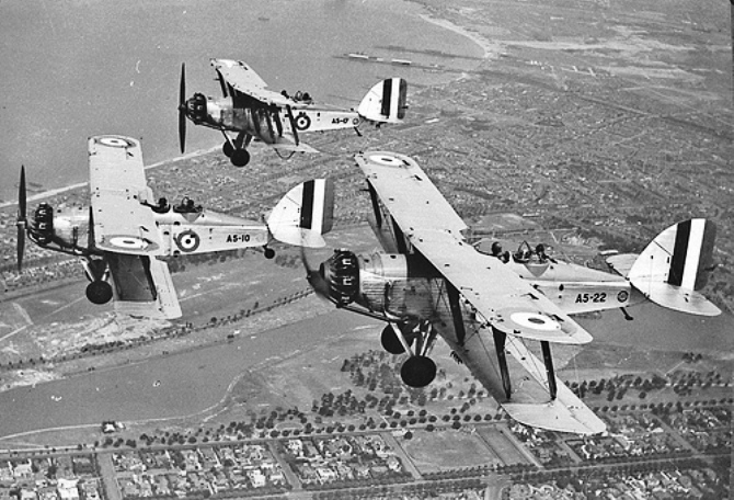 Westland A5 Wapiti IA & IIA - RAAF - Melbourne circa 1930